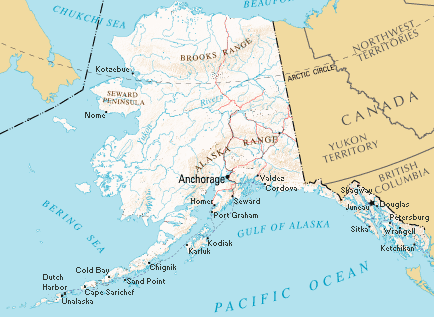 Image taken from File:National-atlas-alaska.png, modified to show all ports of call for the Alaska Steamship Company. Port information taken from here.